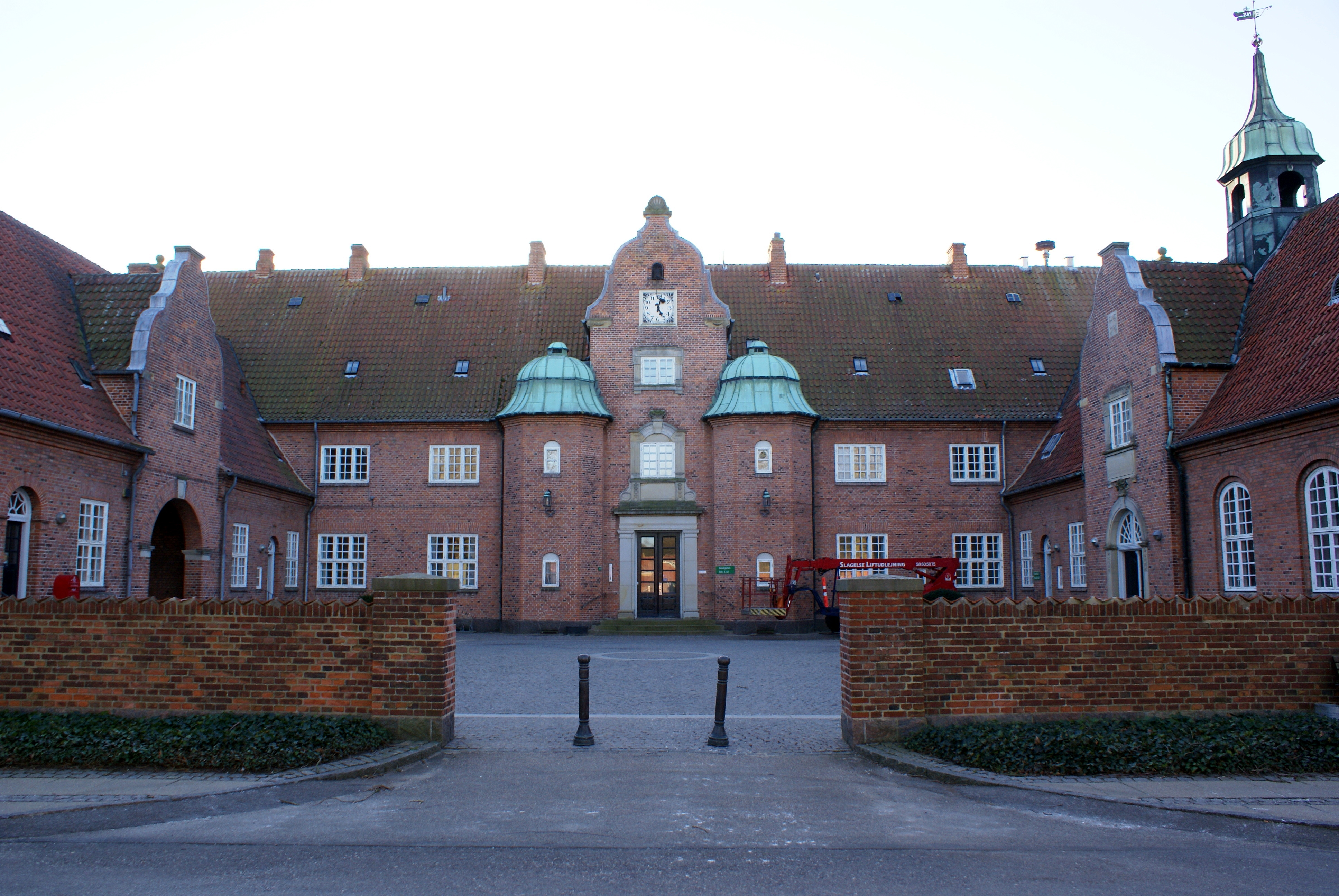 The mainbuilding at SNS - Sindssygehospitalet i Nykøbing på Sjælland.